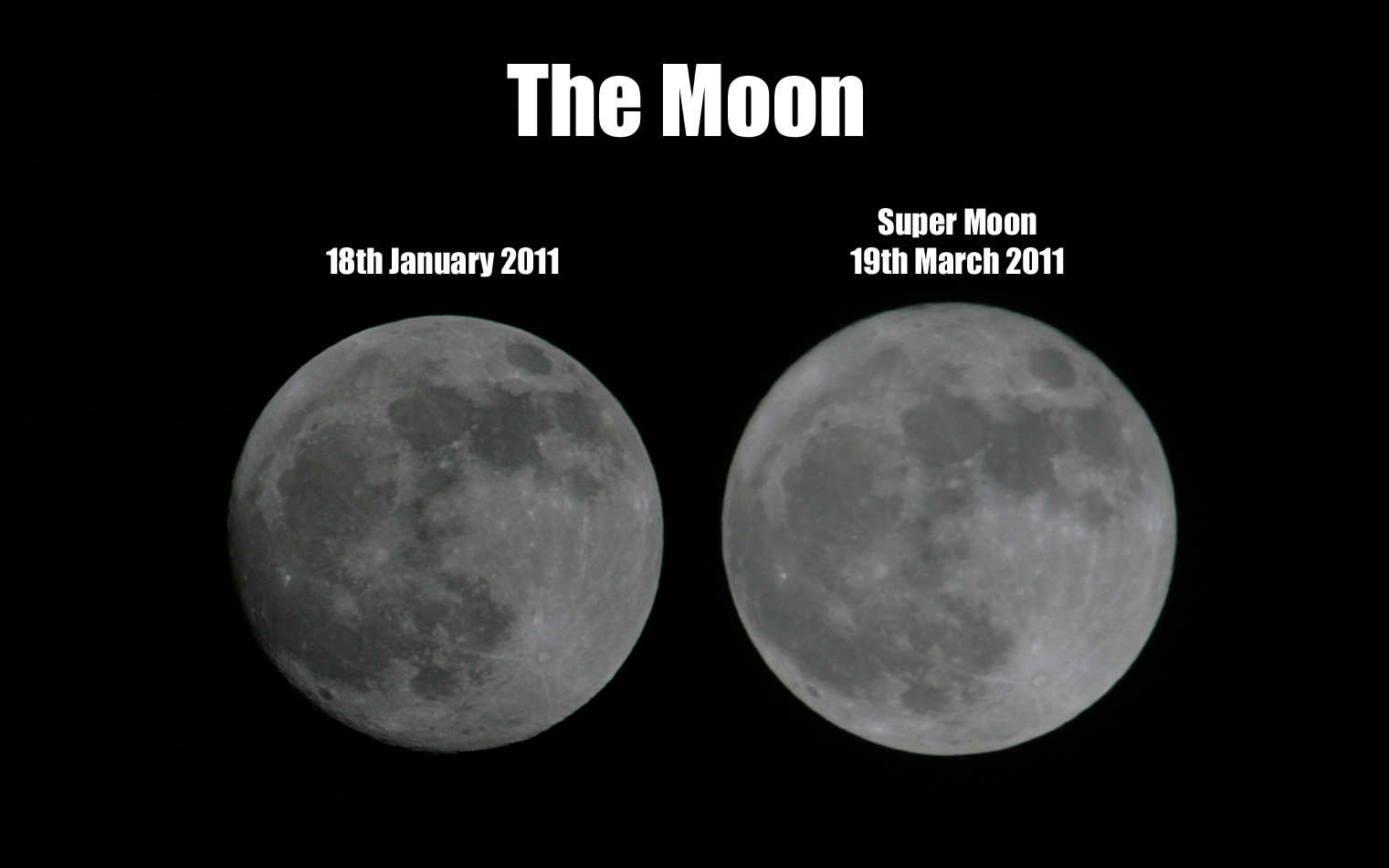 I have compared Moon photos I took on 18th January 2011 to the Super Moon on 19 March 2011. As you can see it is bigger and brighter. Both were taken at 300mm but I have also cropped in Photoshop. These are the only two times I have taken photos of the Moon at night. Please leave a comment and any criticism gratefully received. On March 19th, a full Moon of rare size and beauty will rise in the east at sunset. It's a super "perigee moon"--the biggest in almost 20 years. "The last full Moon so big and close to Earth occurred in March of 1993," "I'd say it's worth a look." Full Moons vary in size because of the oval shape of the Moon's orbit. It is an ellipse with one side (perigee) about 50,000 km closer to Earth than the other (apogee):. Nearby perigee moons are about 14% bigger and 30% brighter than lesser moons that occur on the apogee side of the Moon's orbit.